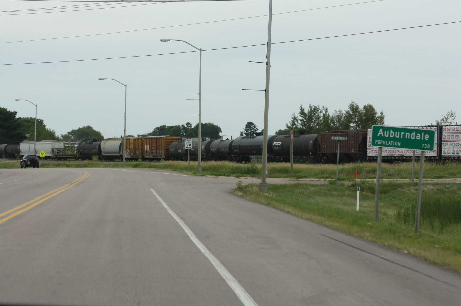 Looking east in Auburndale, Wisconsin on U.S. Route 10.